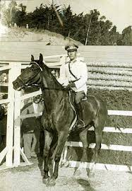 asassasasas